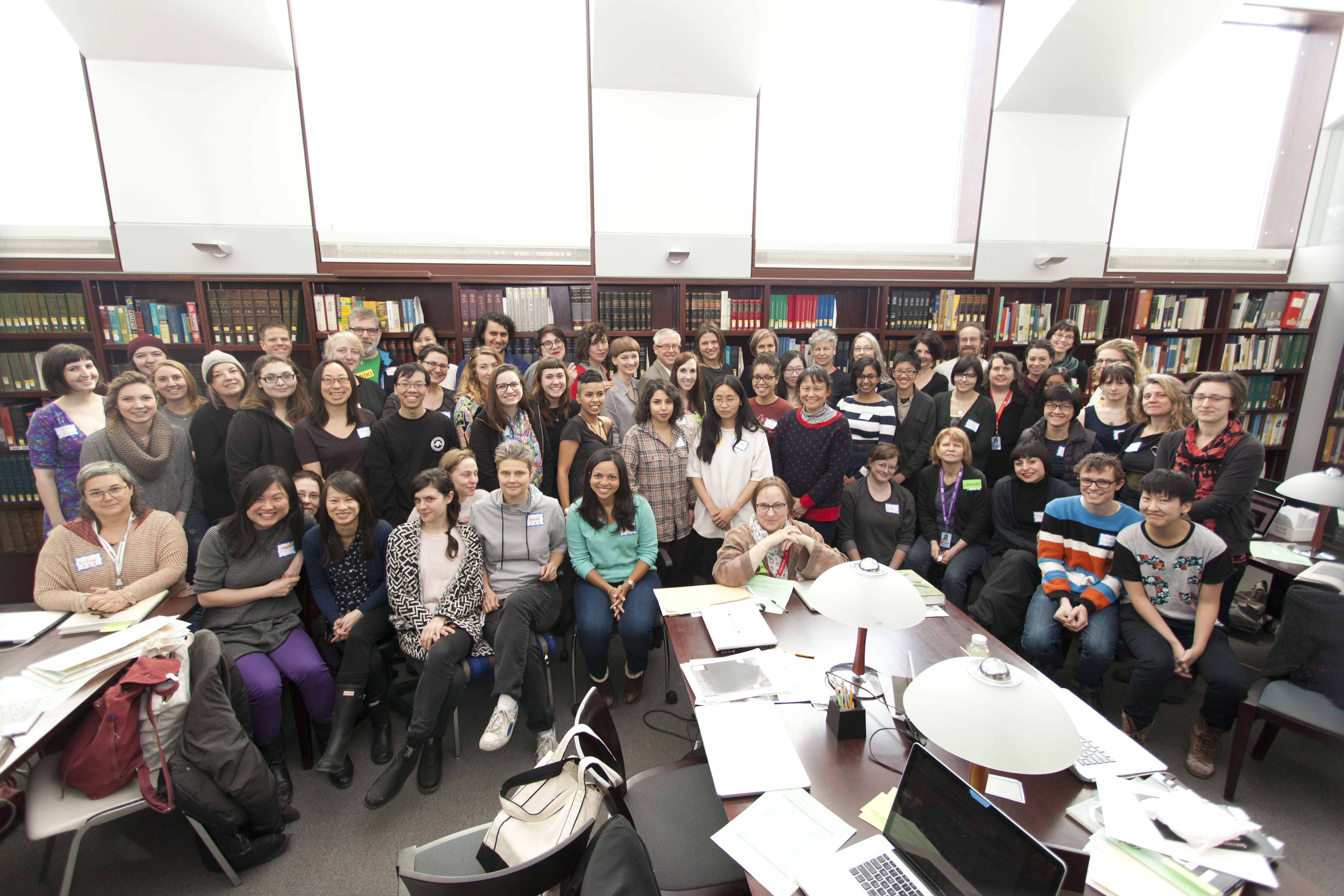 Art+Feminism Wikipedia Edit-A-Thon